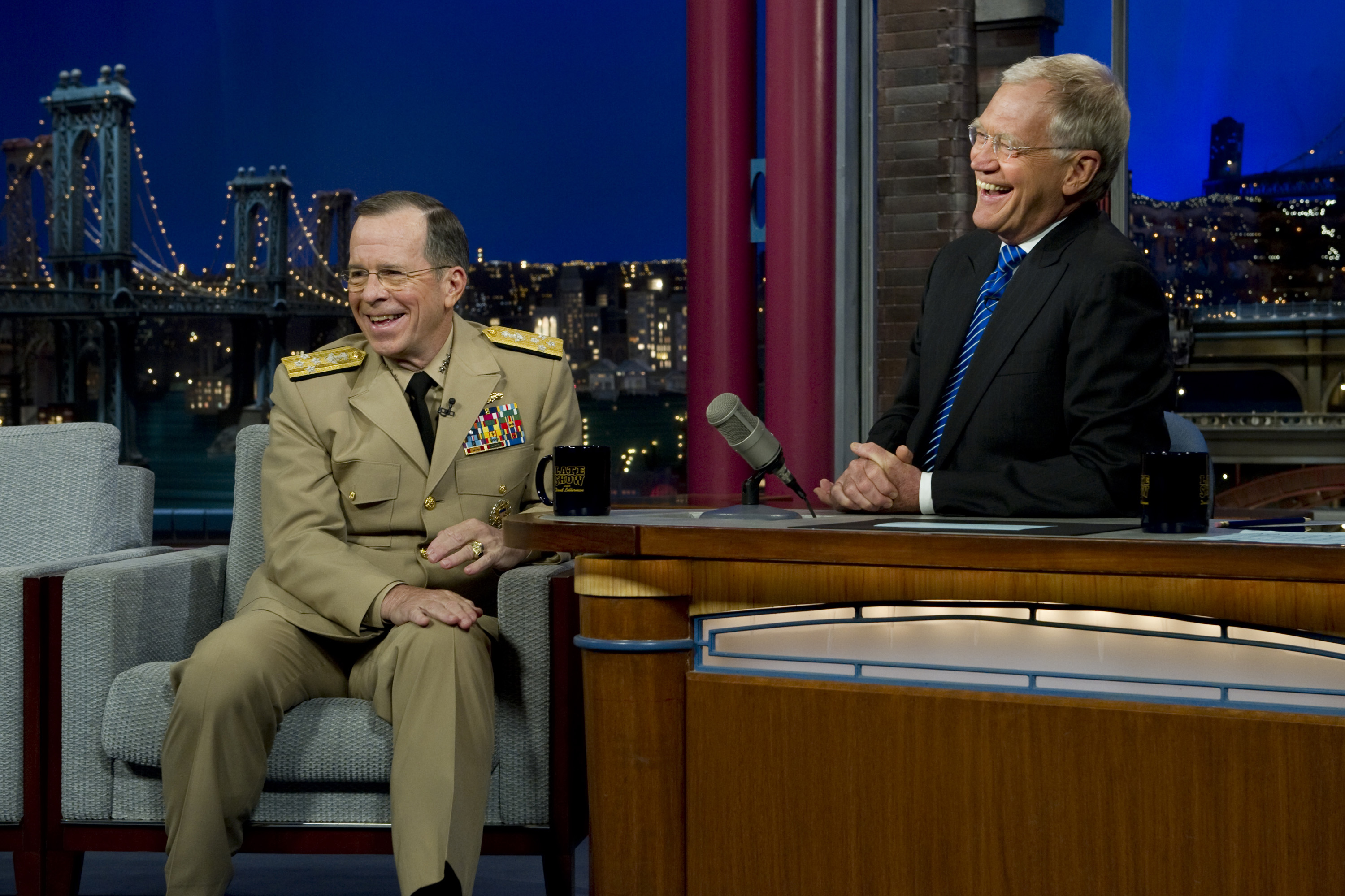 This is an alternately cropped version of File:David Letterman 2.jpg. This version has been edited to provide appropriate visual context to make this picture of Dave both nicer to look at, and more historically important. (The following is the original image's description as of the time of this writing: David Letterman during an interview on the Late Show in New York City.